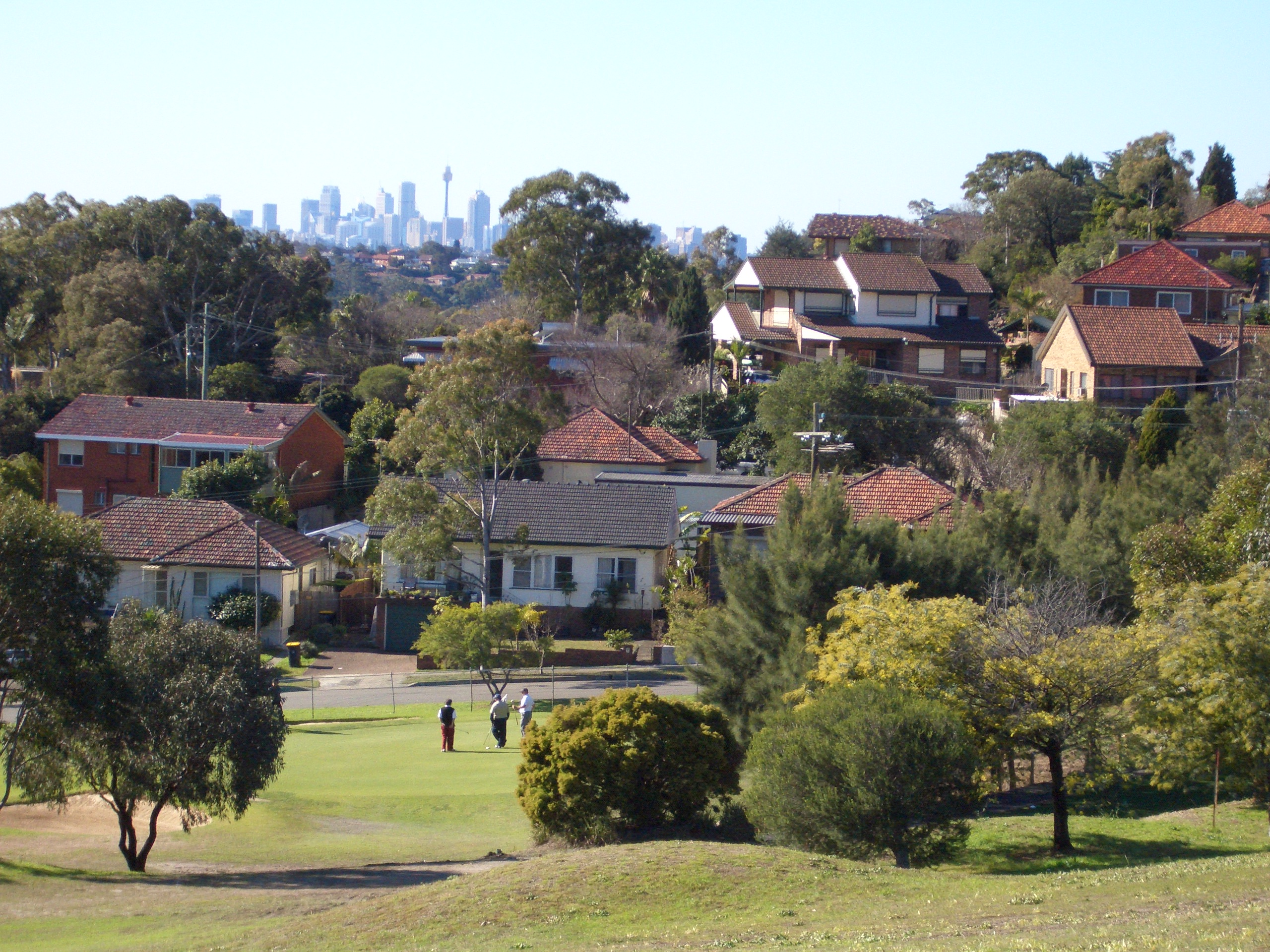 Bardwell Valley homes, Sydney, Australia.